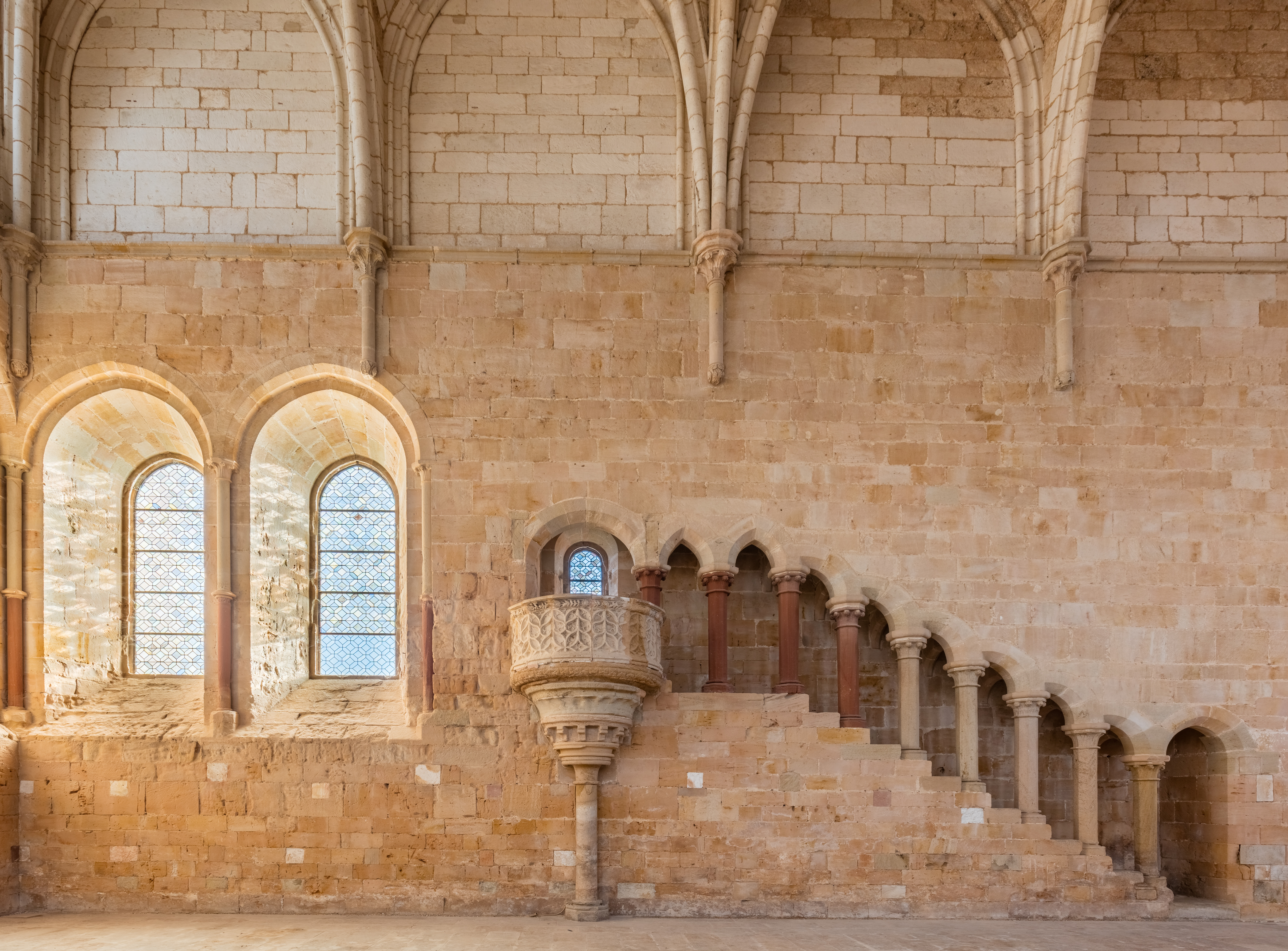 Monastery of Santa María de Huerta, Santa María de Huerta Soria, Spain